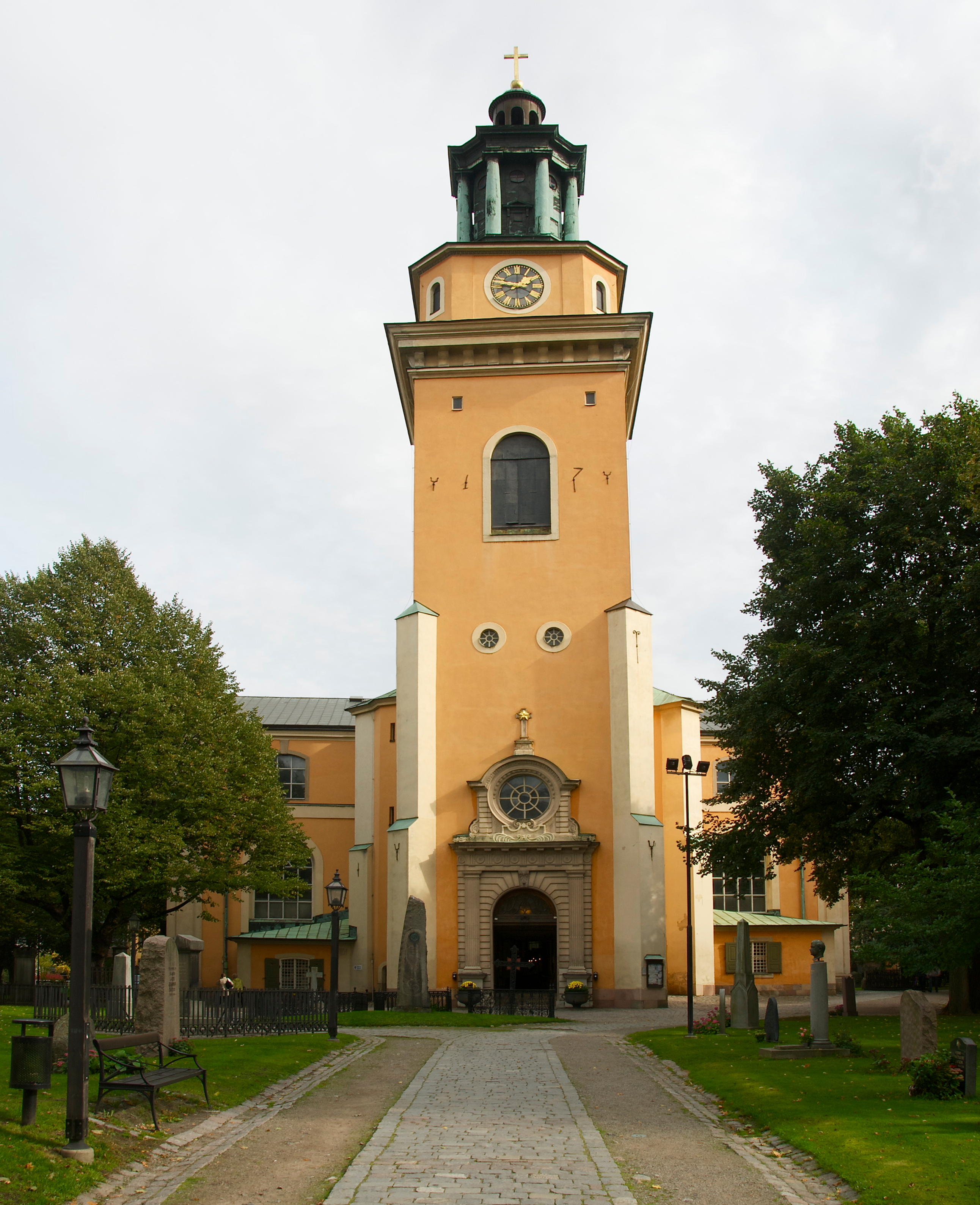 Maria Magdalena kyrka, Stockholm